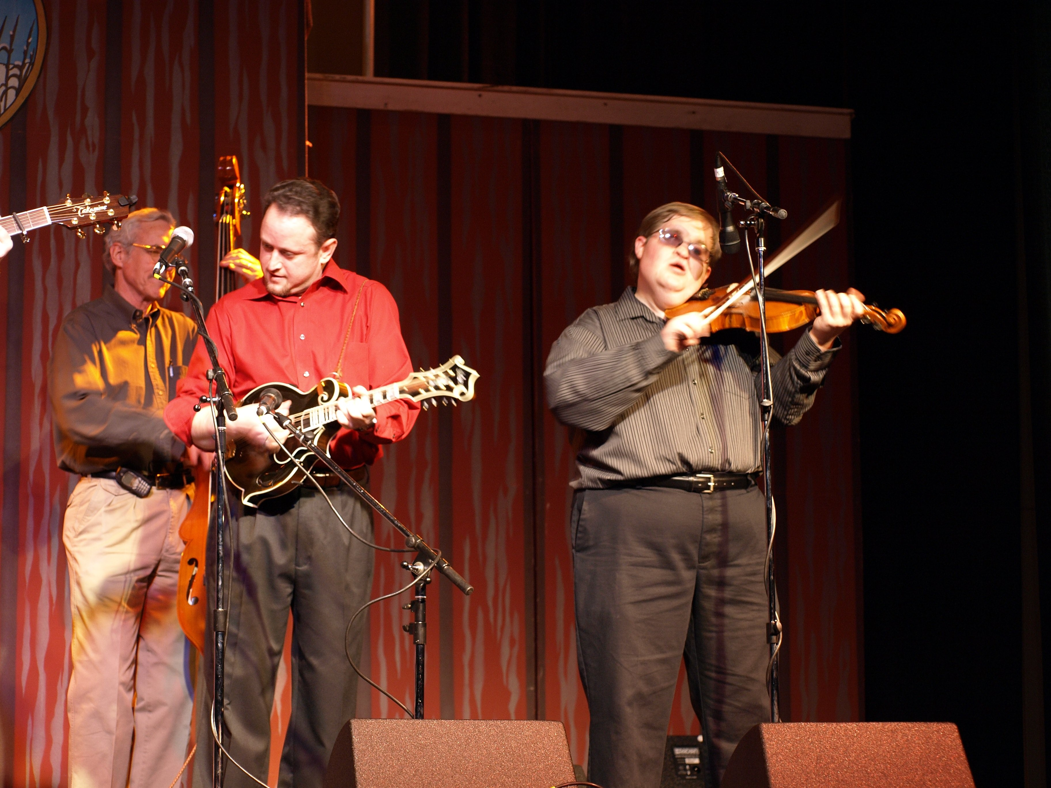 Jesse Brock (mandolin) & Michael Cleveland (fiddle) @ Wintergrass 2008